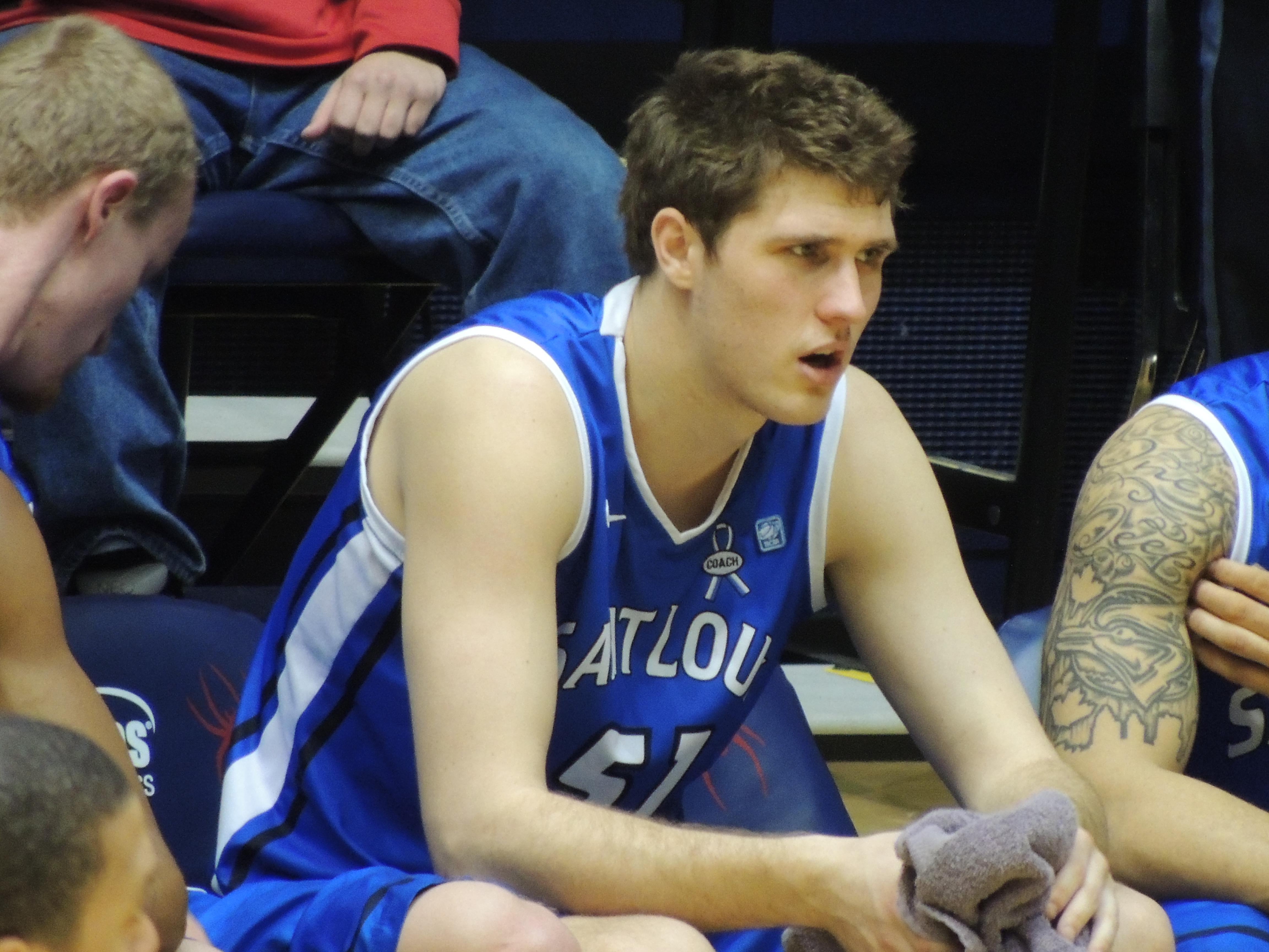 Saint Louis University center Rob Loe